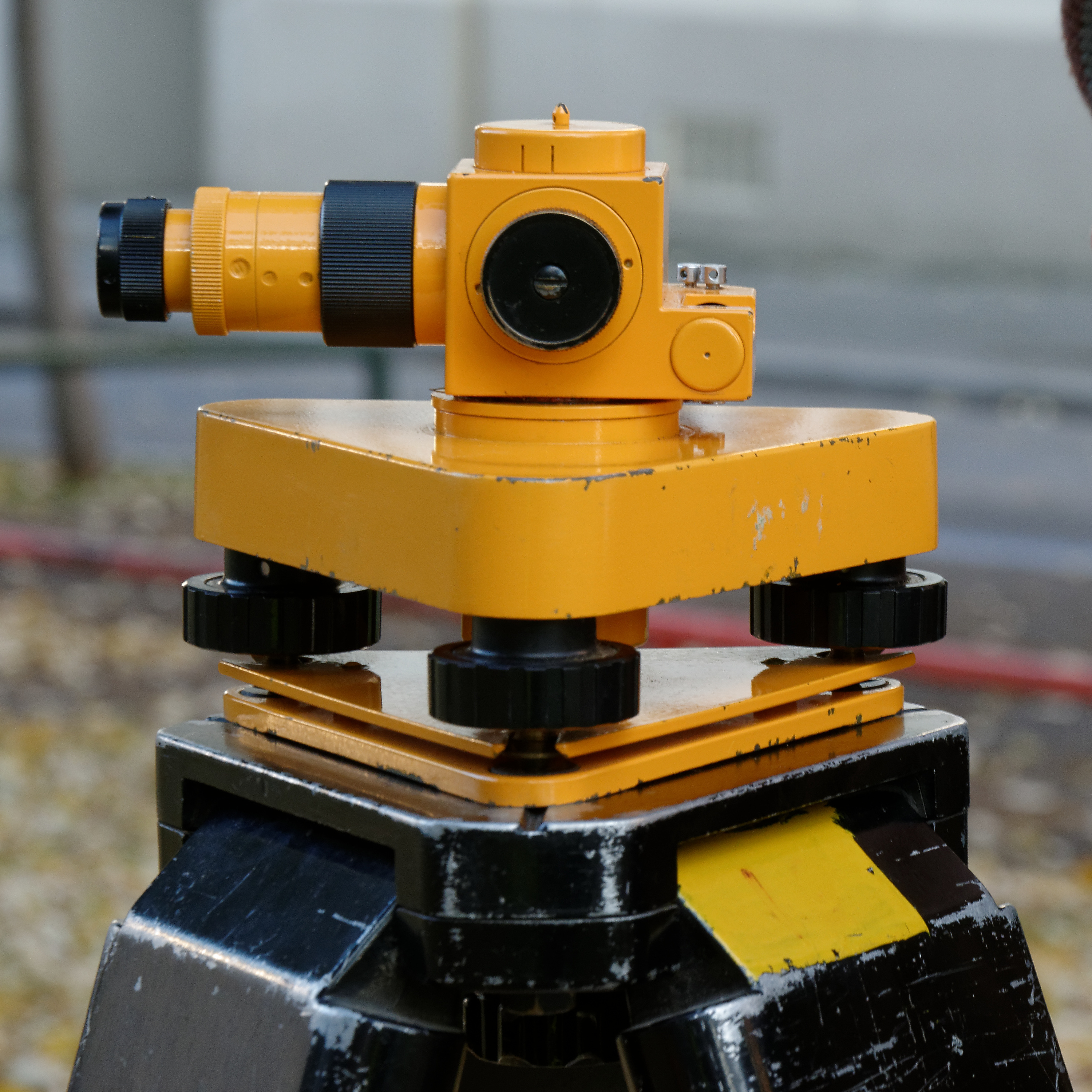 Optical plummet VEB Carl Zeiss Jena